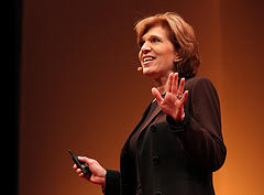 Morrow Cater gives a talk "Bridging the Partisan Divide over Climate" at TED conference in February 2013